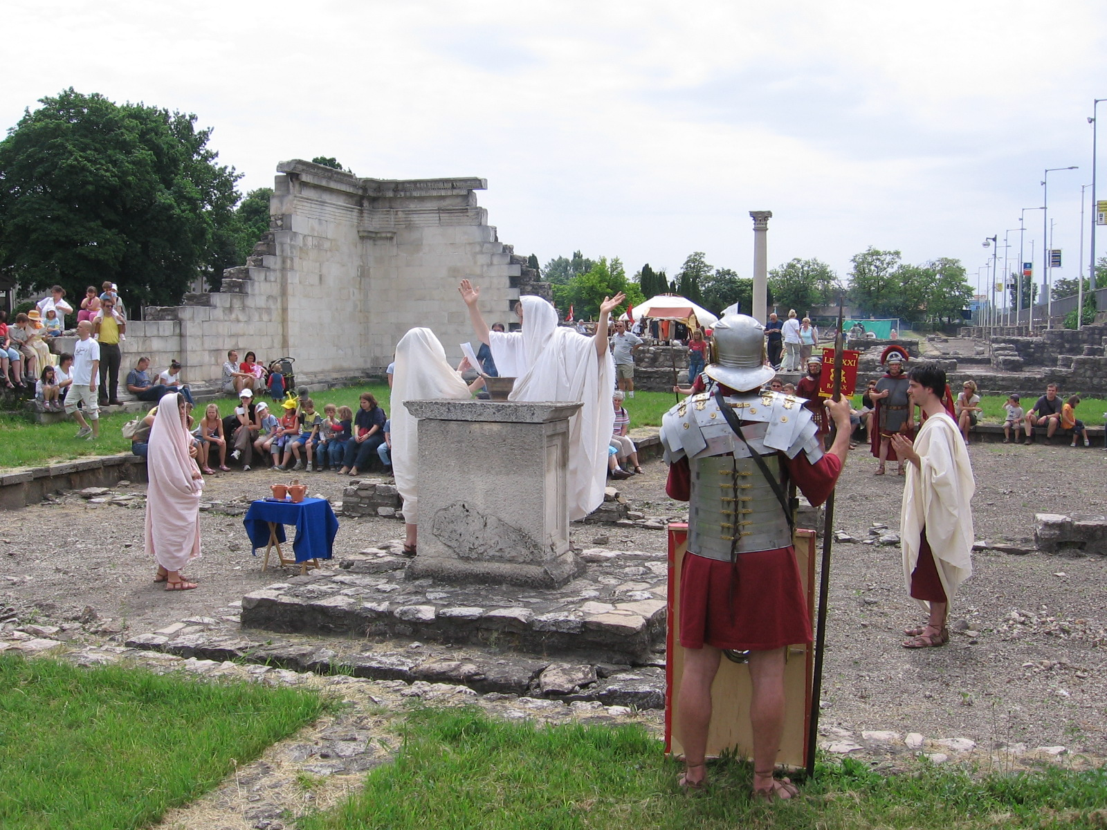 Members of Nova Roma conduct a Roman sacrifice to the goddess Concordia between the ruins of Aquincum, the modern city of Budapest, Hungary, during the Roman festival of Floralia, organized by the Aquincumi Múzeum.